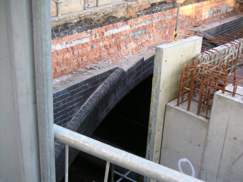 Weekday Cross Tunnel South Portal Nov2007